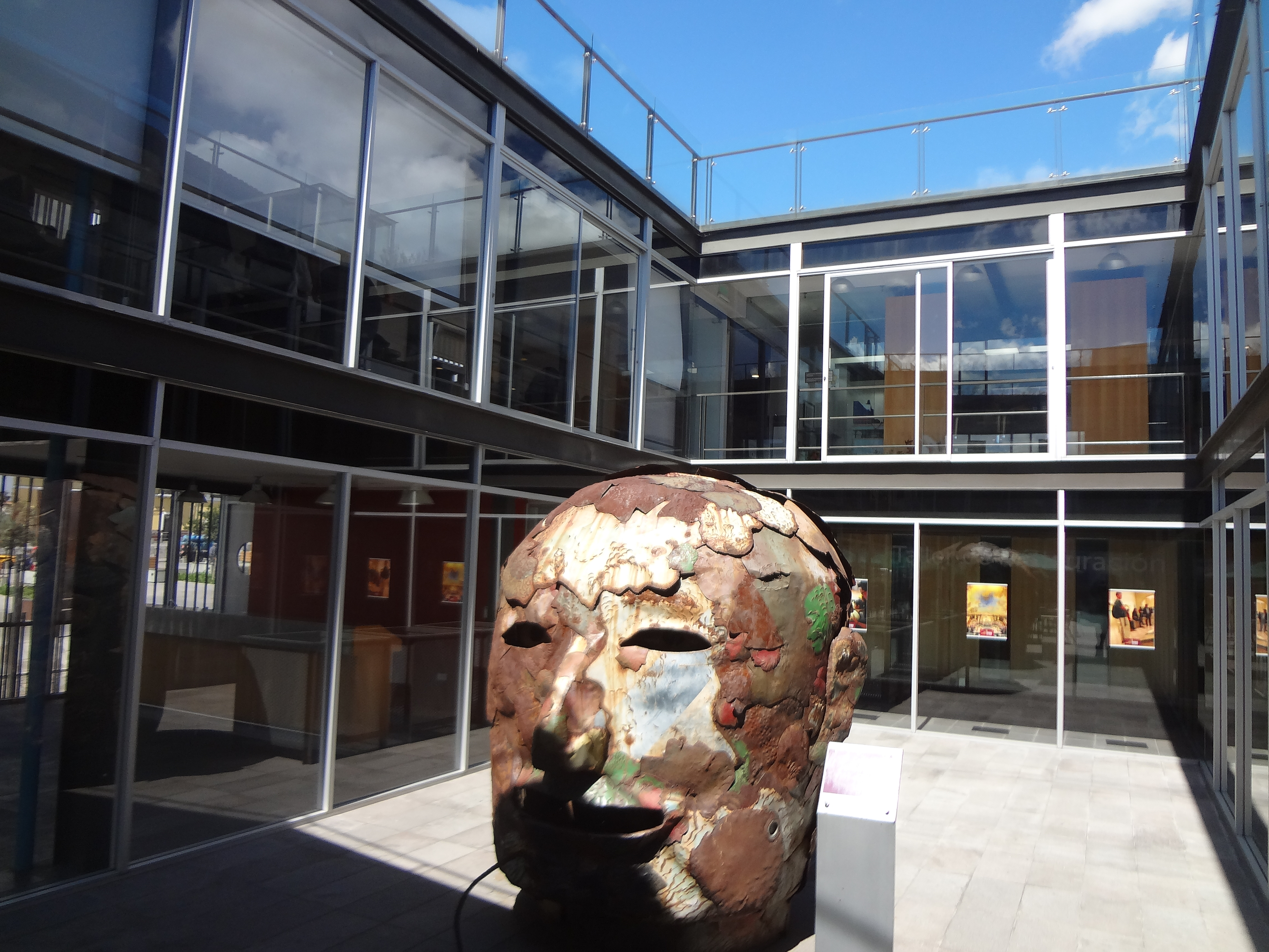 Museo de la Ciudad, Quito (museum) Photography by David Adam Kess